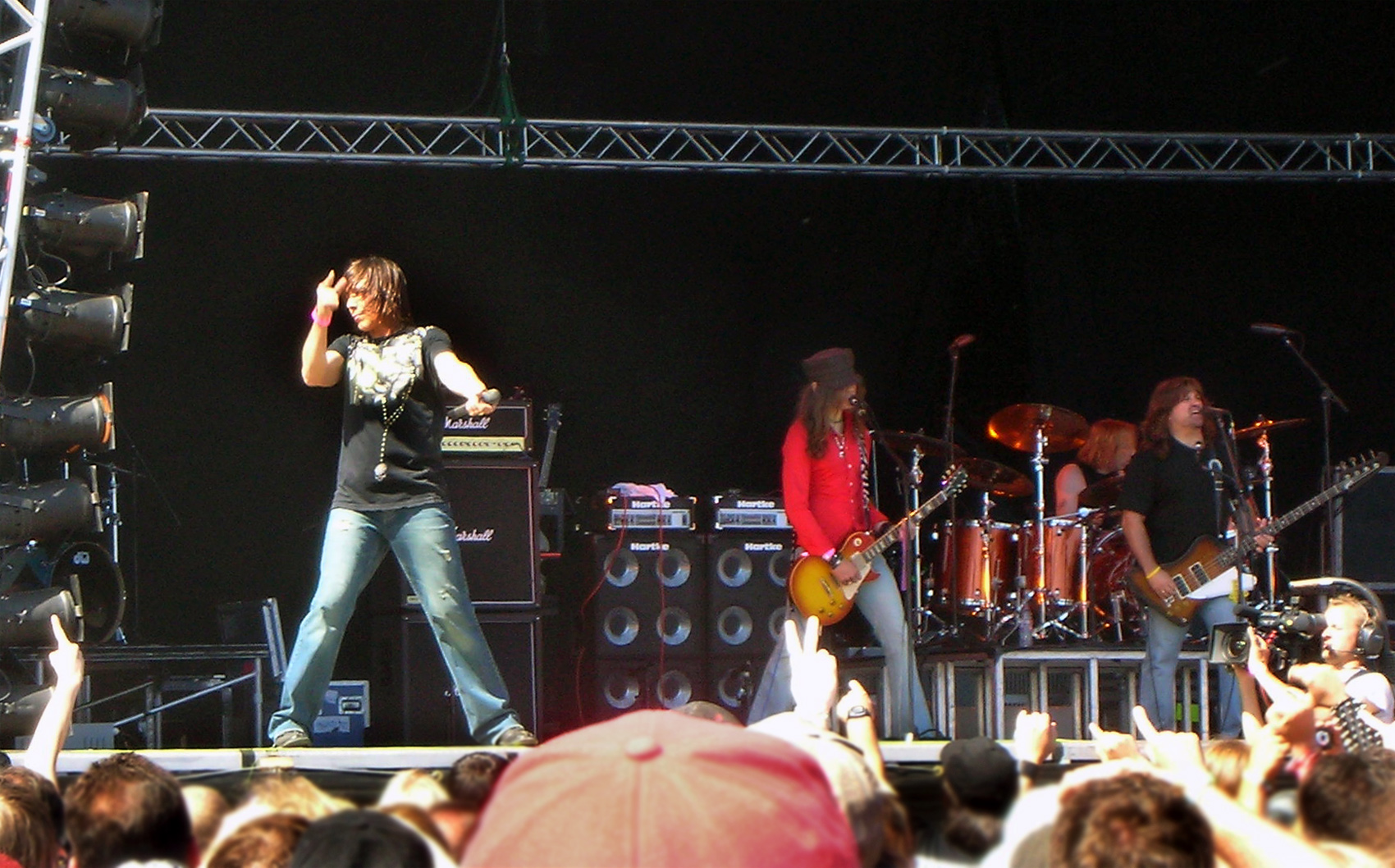 American rock band Tesla at the Sweden Rock Festival, 2008.